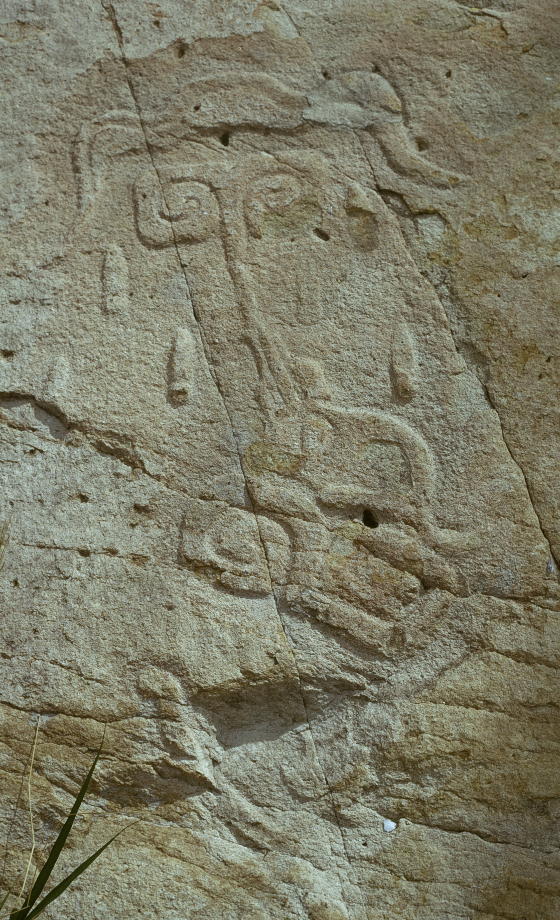 Chalcatzingo, Morelos, Mexico: Relief VII